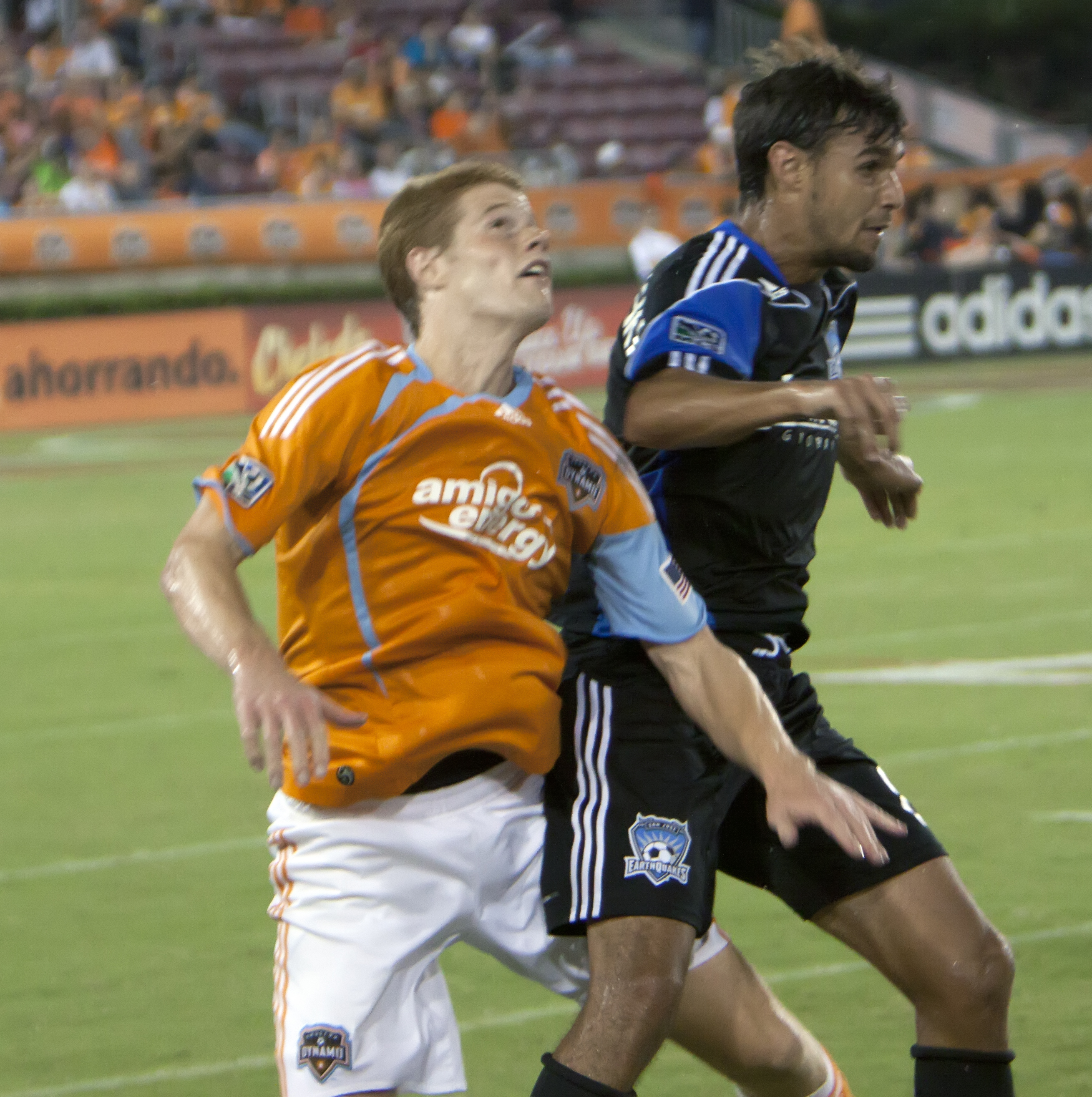 San Jose Earthquakes forward Chris Wondolowski (blue jersey) battles Houston Dynamo Andrew Hainault for ball on Sep 5, 2010 at Robertson Stadium, Houston, Texas